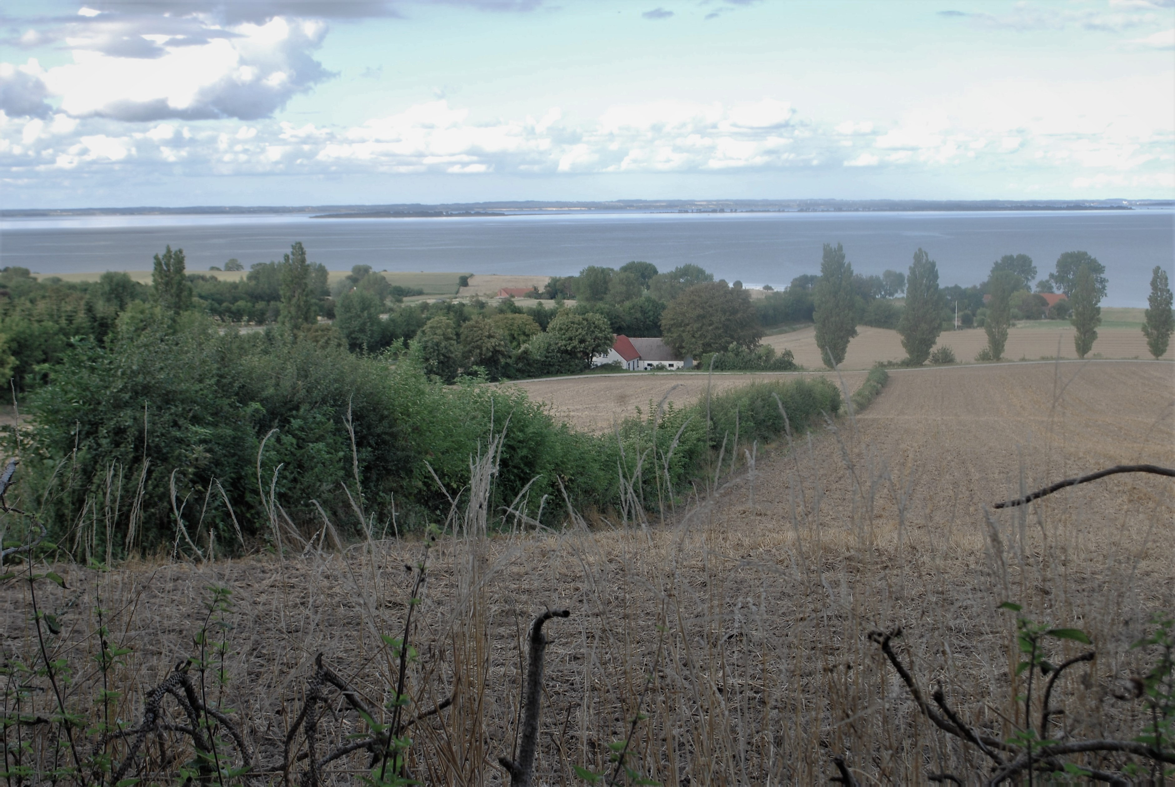 Landscape south east of Skovby, Ærø, Denmark